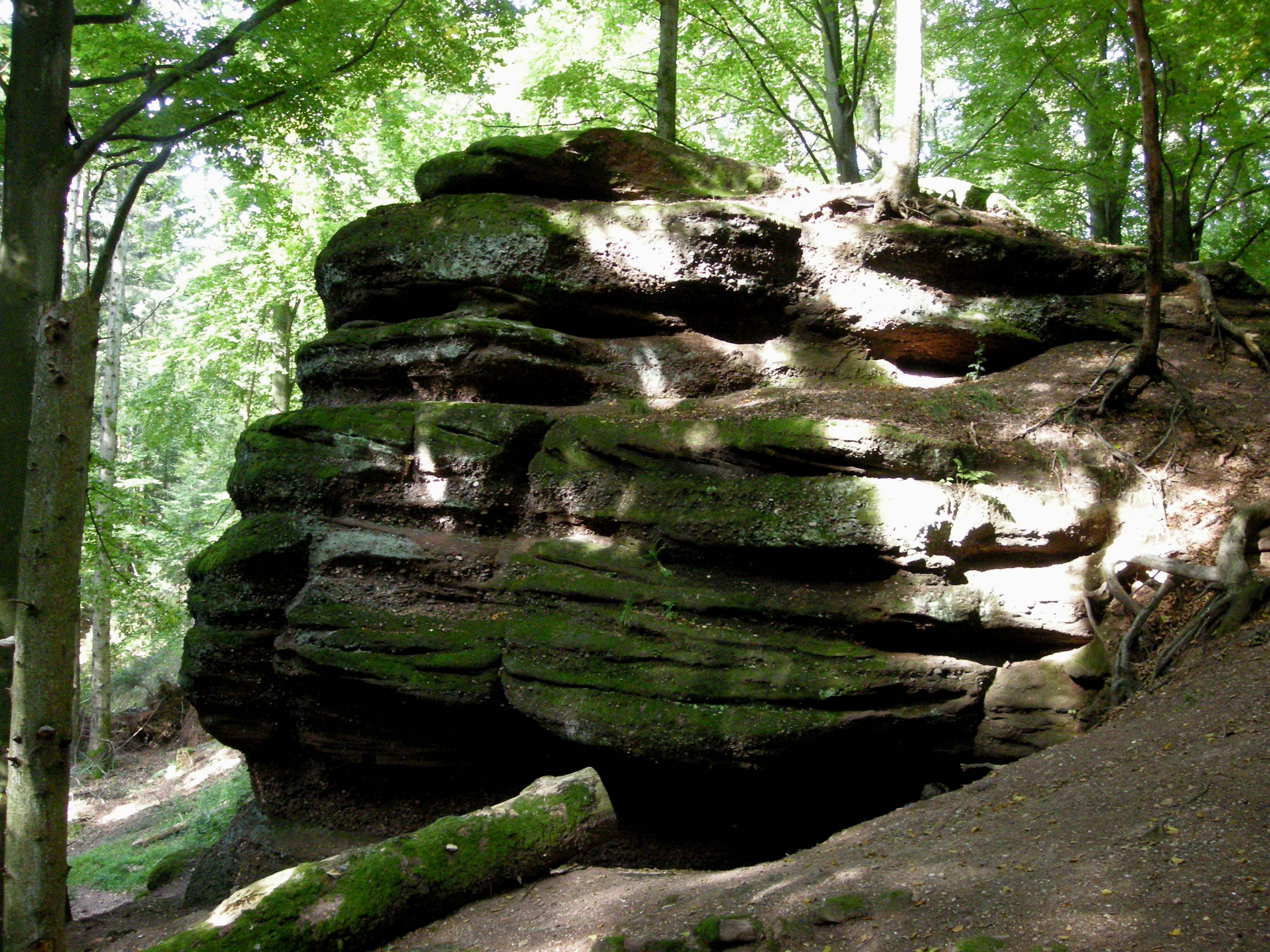 Grotte des Poilus, near Col de la Chapelotte (mountain pass in Meurthe-et-Moselle)